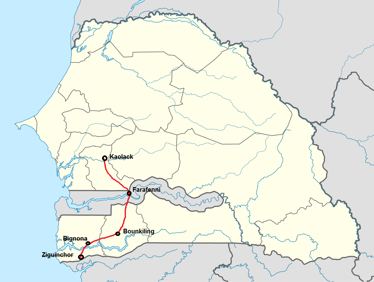 Map of Senegal N4 Trans-Gambia Highway